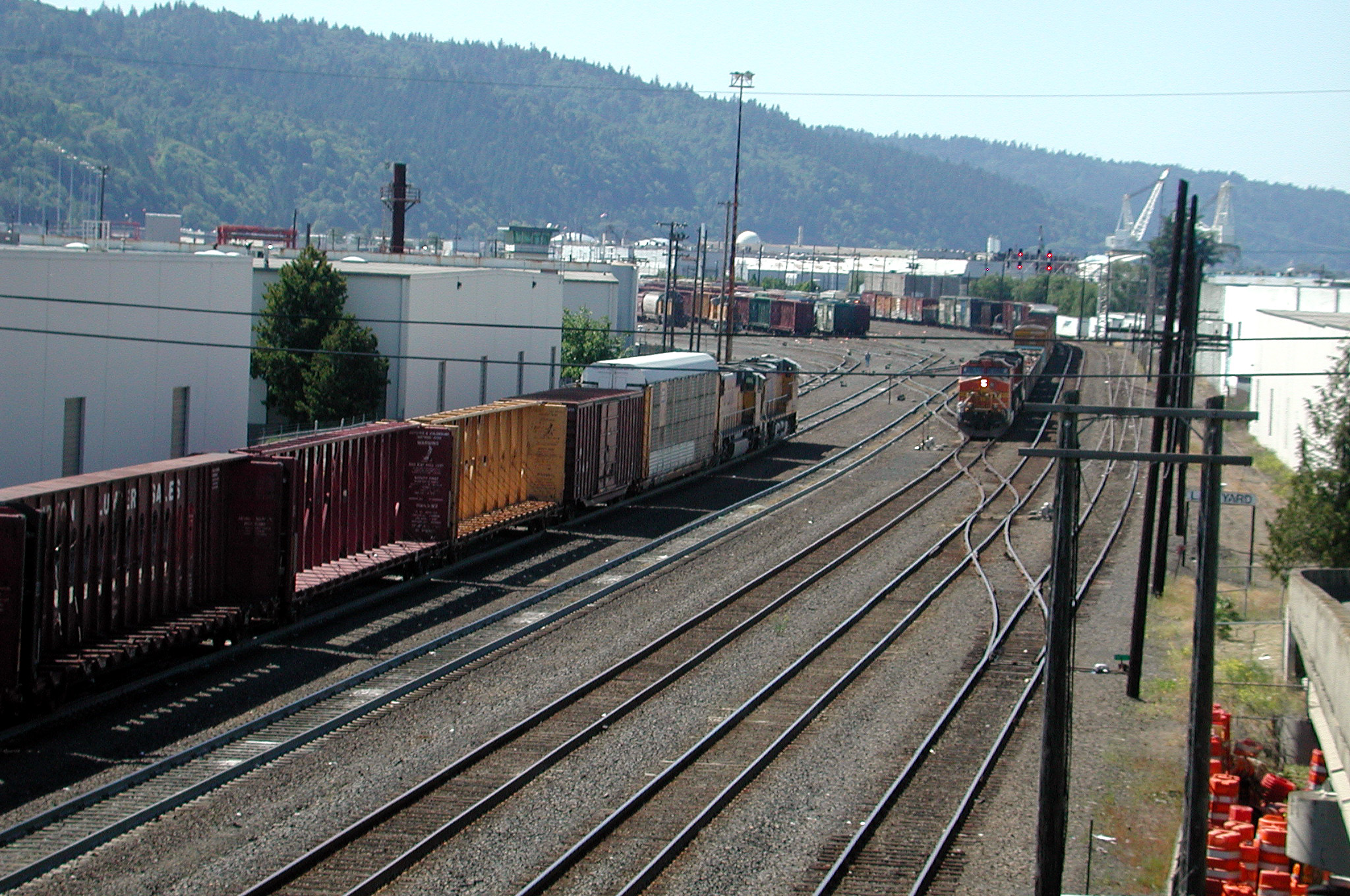 Trains pass one another in the Lakeyard switching yard in northwest Portland, Oregon. Marshland and lakes once occupied this area at the lower end of Balch Creek. The wetlands were filled and converted to heavy industry after the Lewis and Clark Centennial Exposition of 1905 was held near here on an artificial island in Guild's Lake.